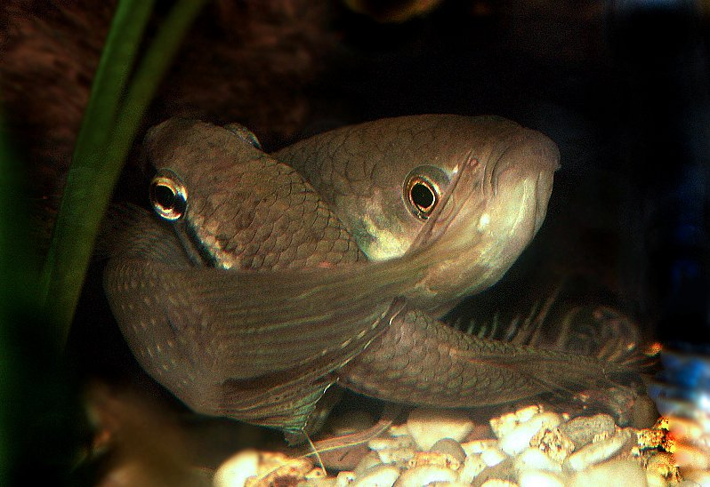 Spawning Betta fusca